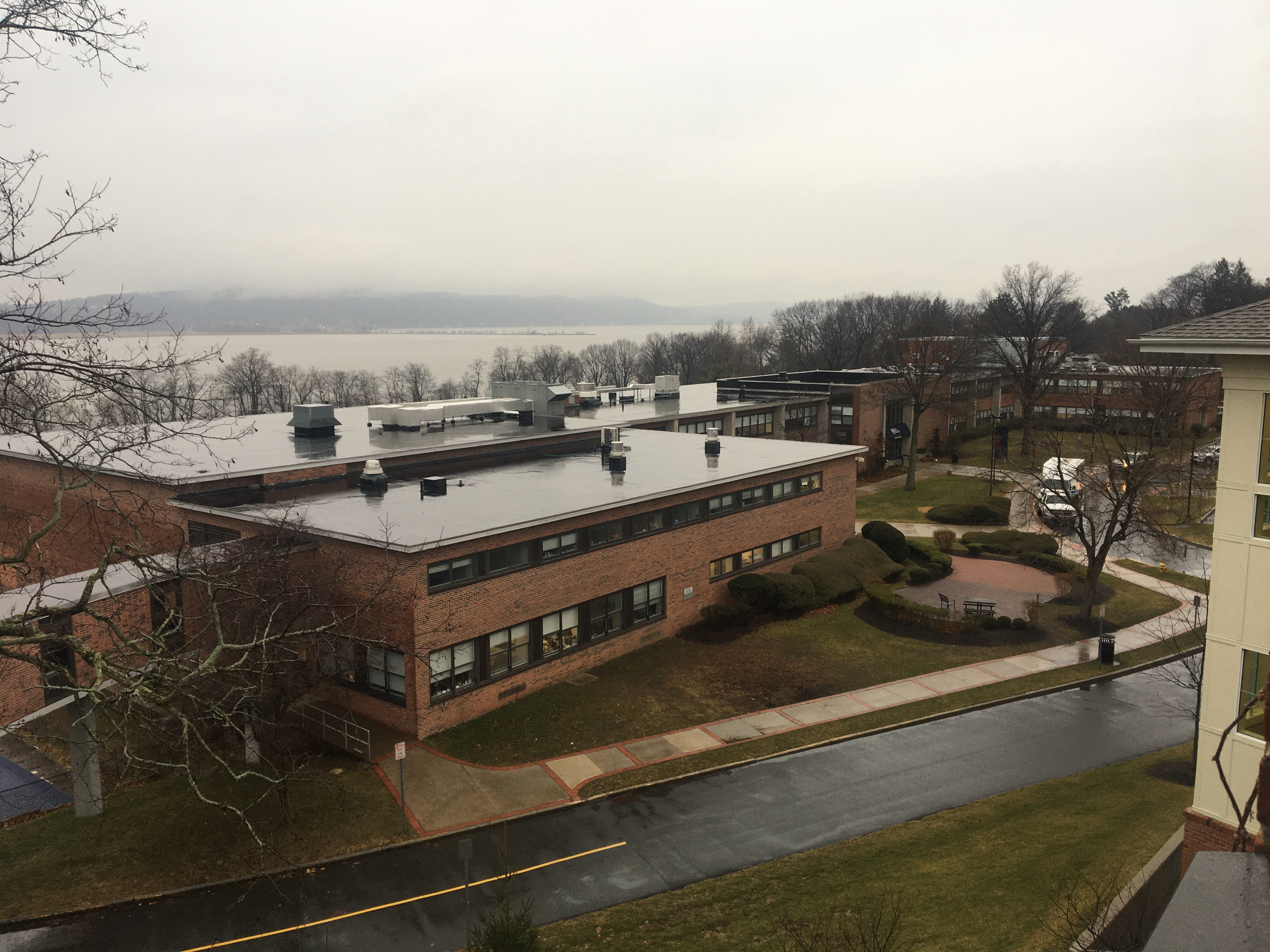 Main Hall at Mercy College